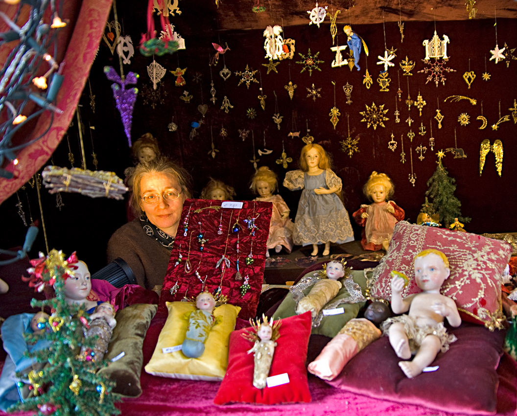 Christkinds at the gift shop in Munich, Germany